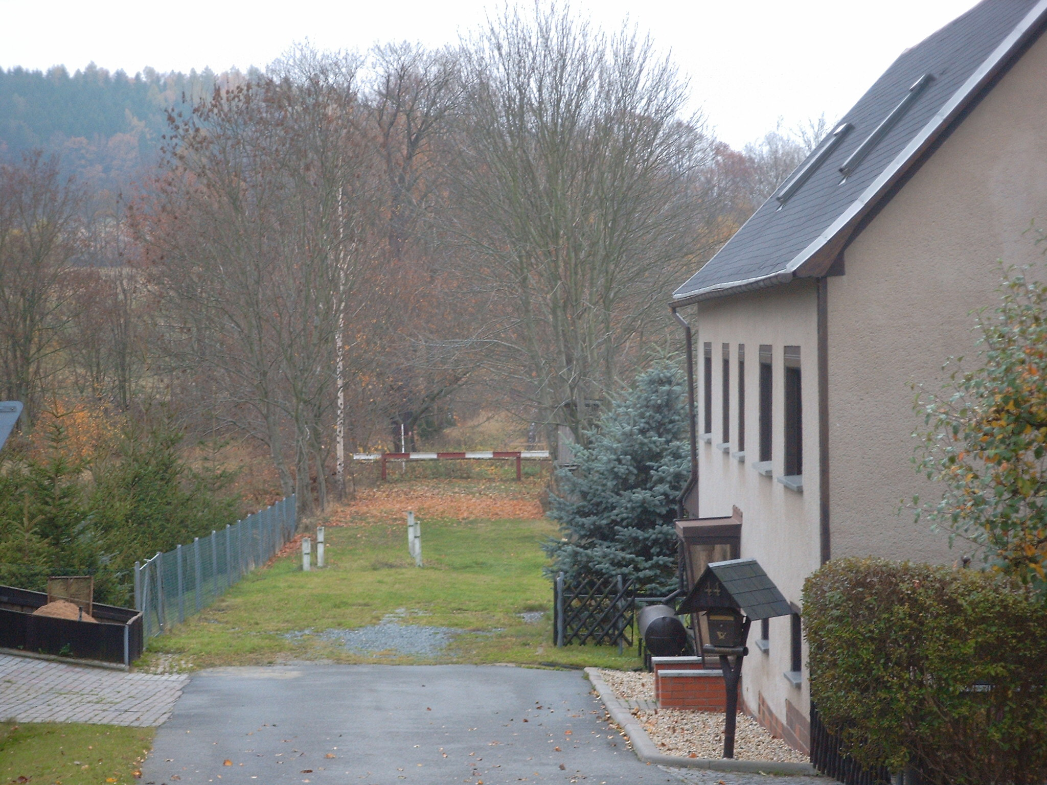 Border crossing